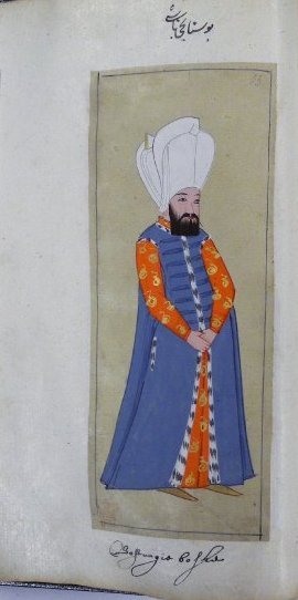 Military pictures from Hans Sloan's 'The Habits of the Grand Signor's Court', c.1620